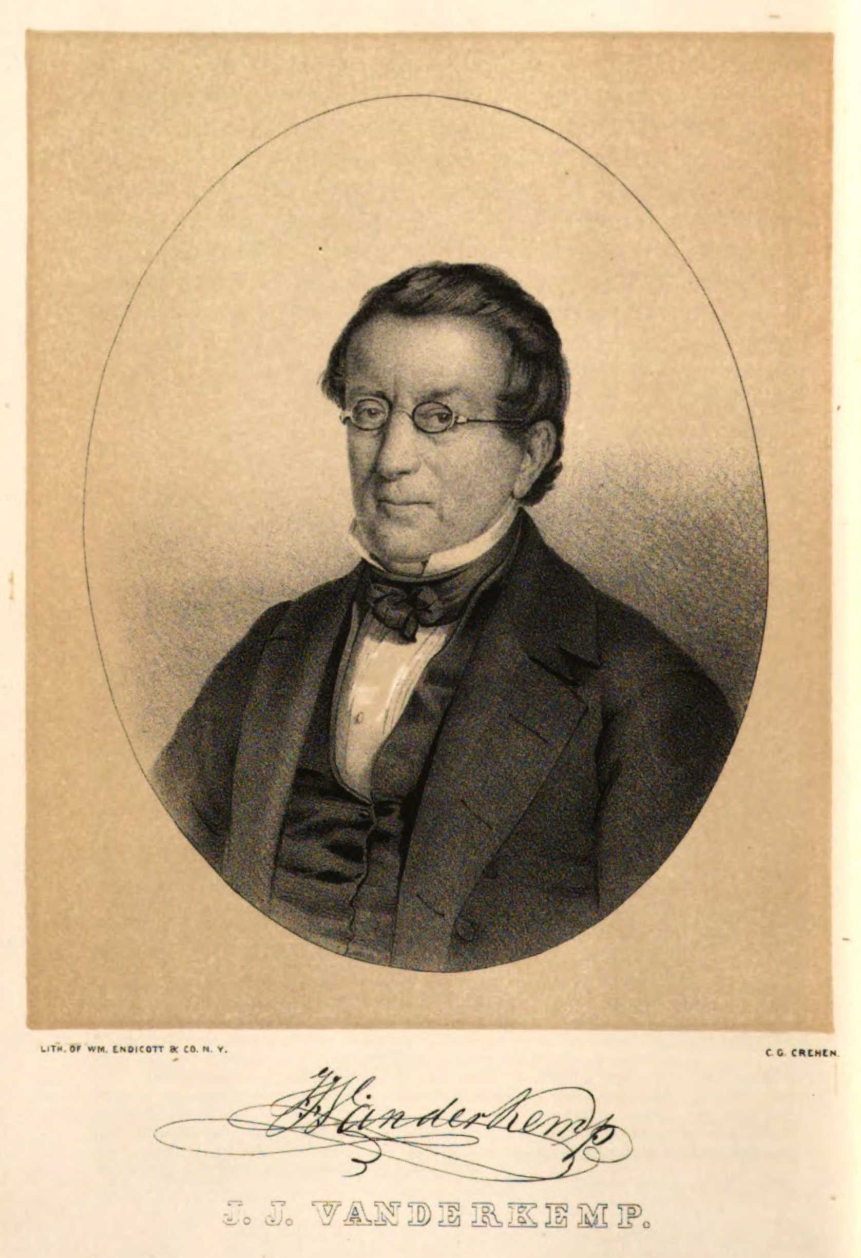 O. Turner (1849)